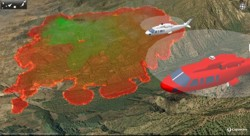 Small screenshot of capaware